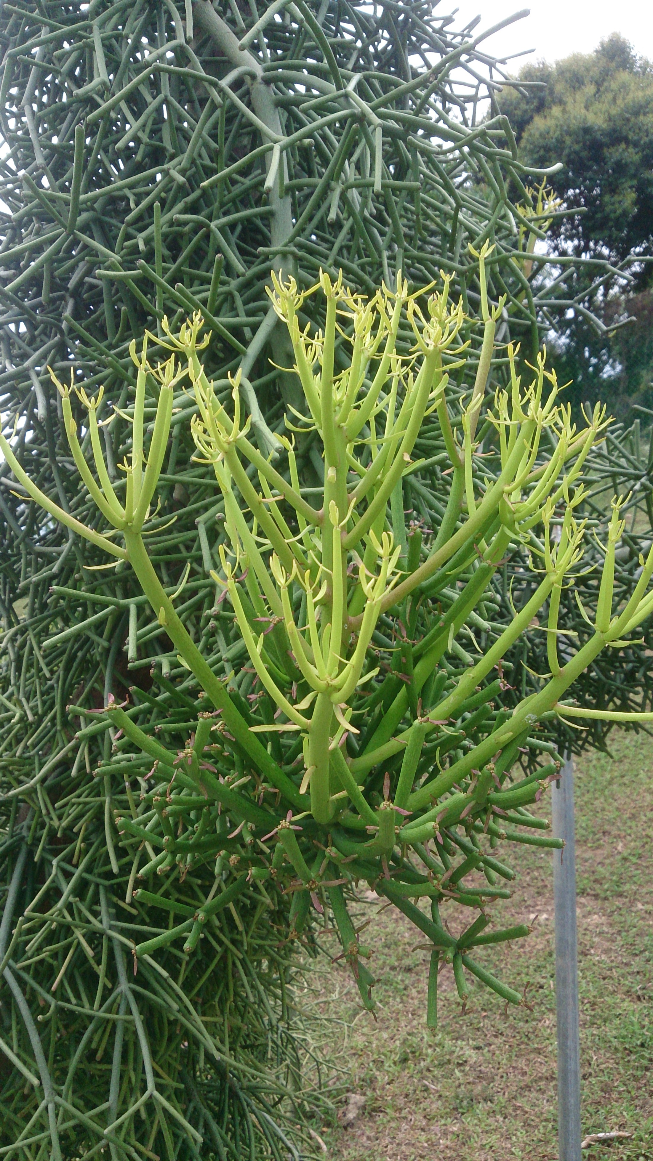 Euphorbia tirucalli. Common names: Pencil Tree. Milkbush. Tulang-Tulang (Malay). 綠玉樹/光棍樹 (Chinese) Origin: Trop. & South Africa.